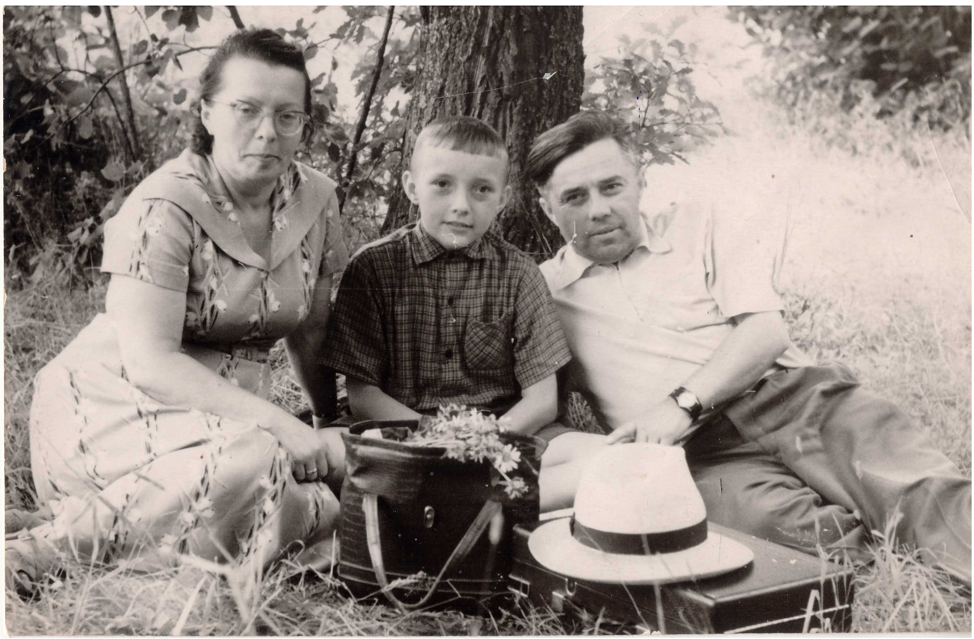 1958 family